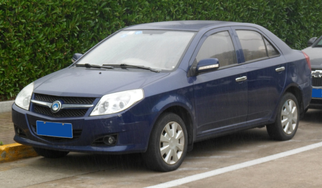 Geely Jingang photographed in Shanghai, China.